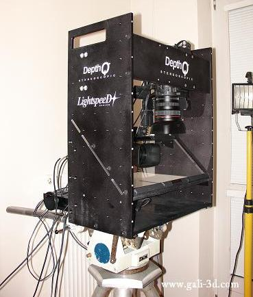 Dual camera rig for 3D movie shooting